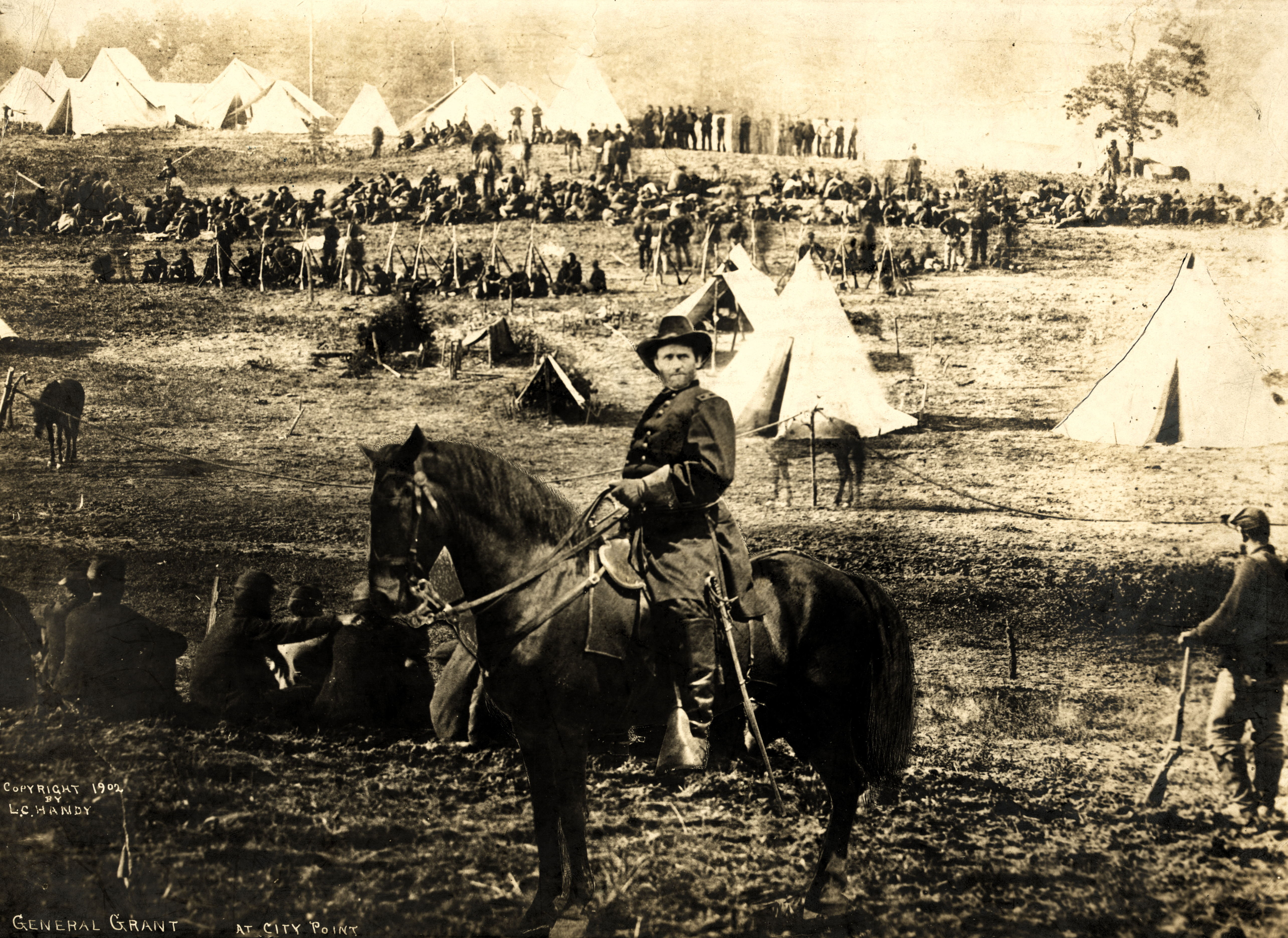 "Ulysses S. Grant at City Point", a montage. According to the Library of Congress this photograph is a montage or composite of several images and does not actually show General Ulysses S. Grant at City Point. Three photos provided different parts of the portrait. The Library has negatives or prints that show: (1) the head, from Grant at his Cold Harbor, Va. headquarters, [1]; (2) the horse and man's body, from Maj. Gen. Alexander McDowell McCook, [2]; (3) the background, from Confederate prisoners captured in the battle of Fisher's Hill, Va., [3].